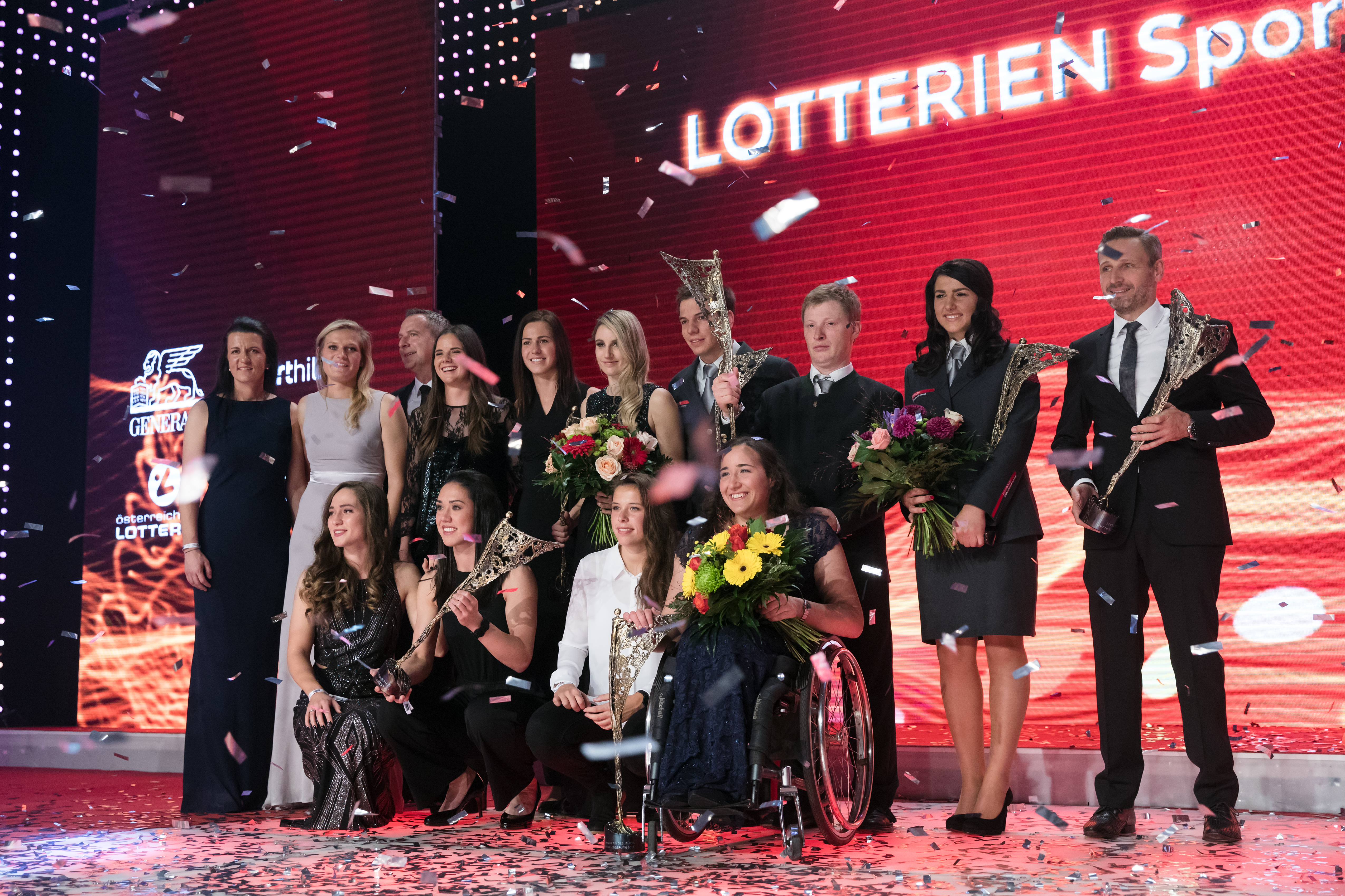 The Austrian Sports Personalities of the Year 2017 (Marx Halle, Sankt Marx, Vienna, Austria).